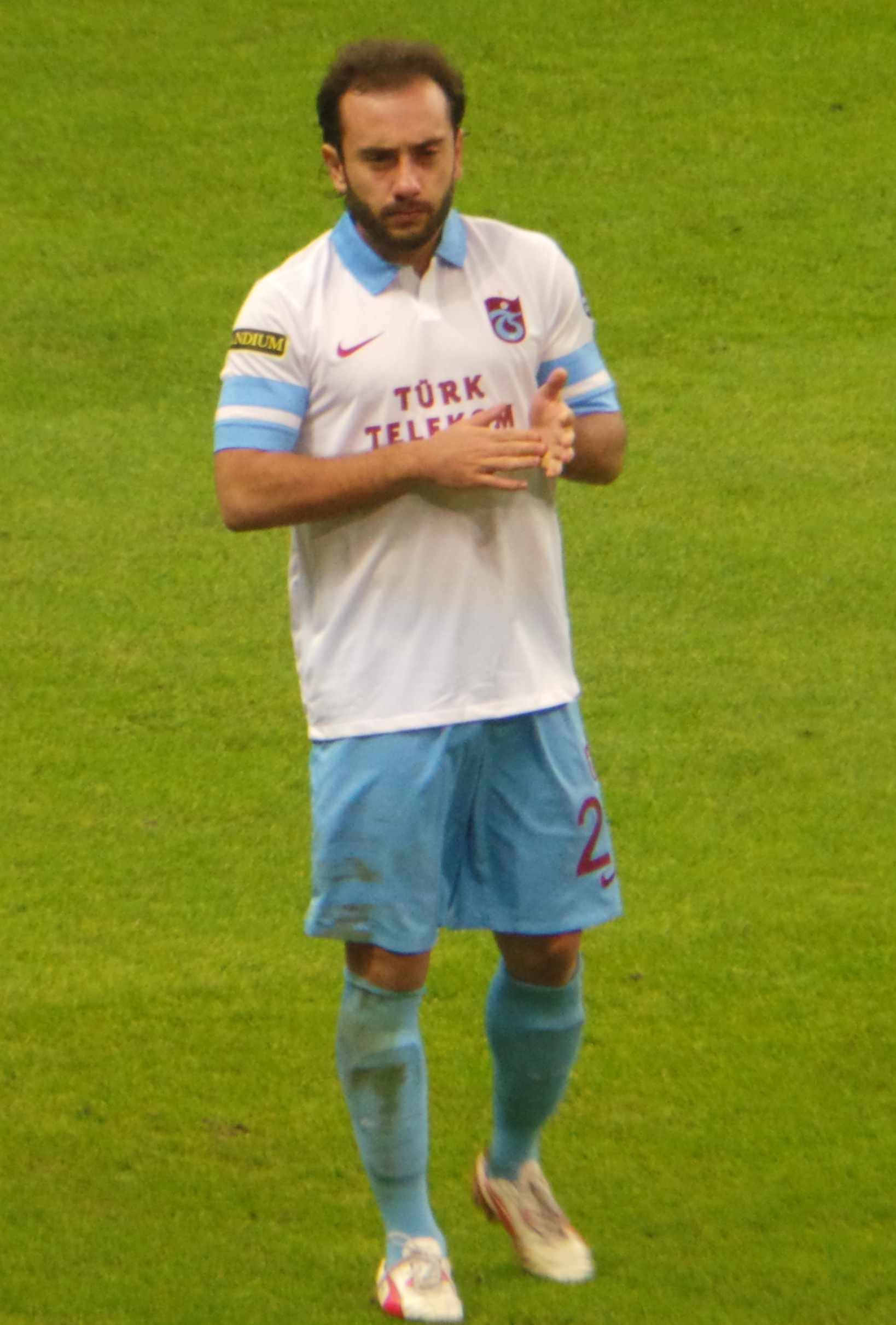 Olcan Adın